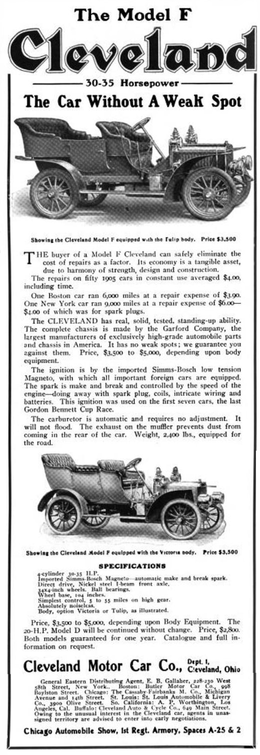 Cleveland Motor Car Co. - Cleveland, Ohio - 1906